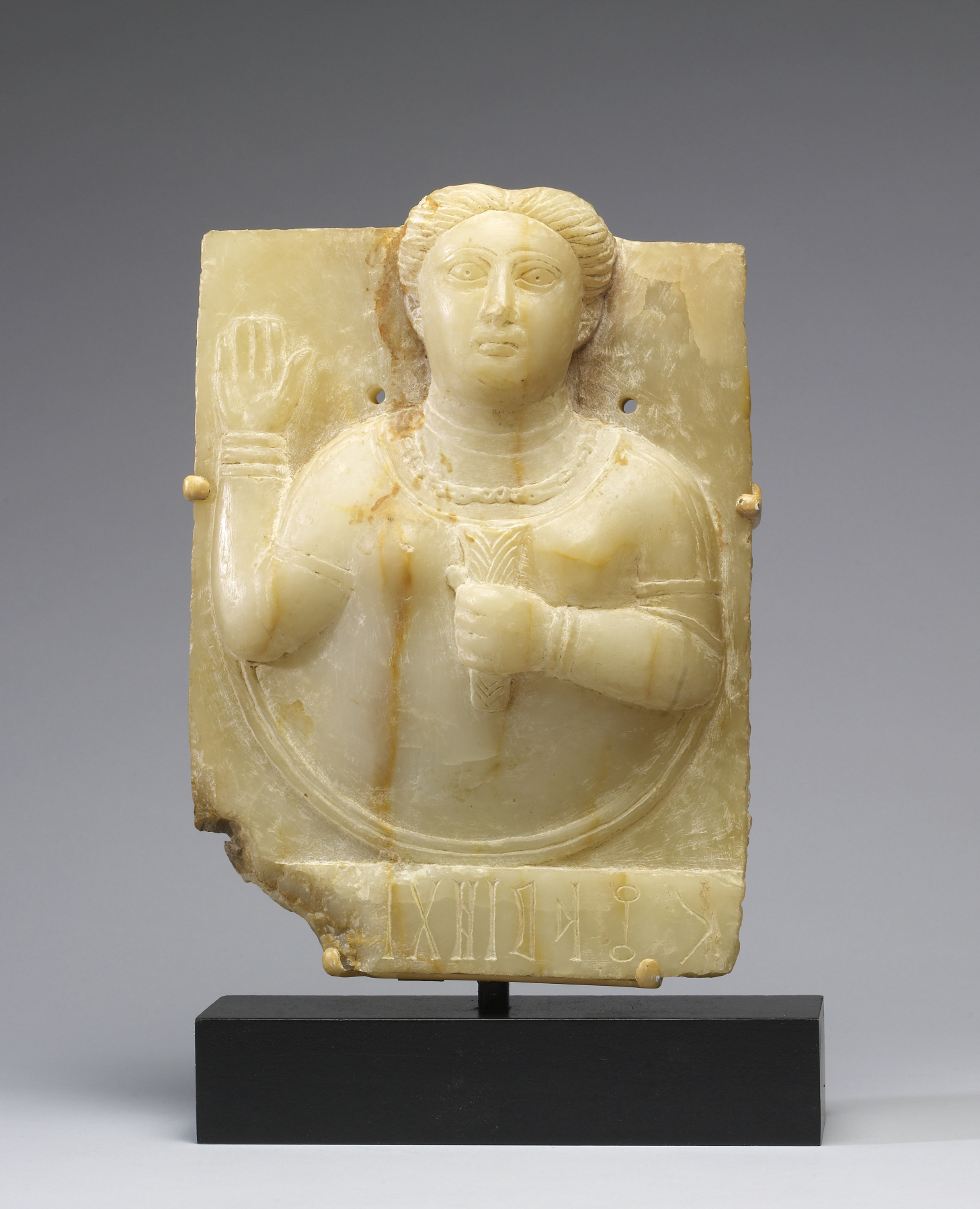 Rising from a roundel, a woman raises her right hand with the palm open toward the viewer. Her left hand holds a stylized bundle of wheat. She represents a priestess, who intercedes with the sun goddess on behalf of the donor. The donor's name, Rathadum, is written below the roundel.